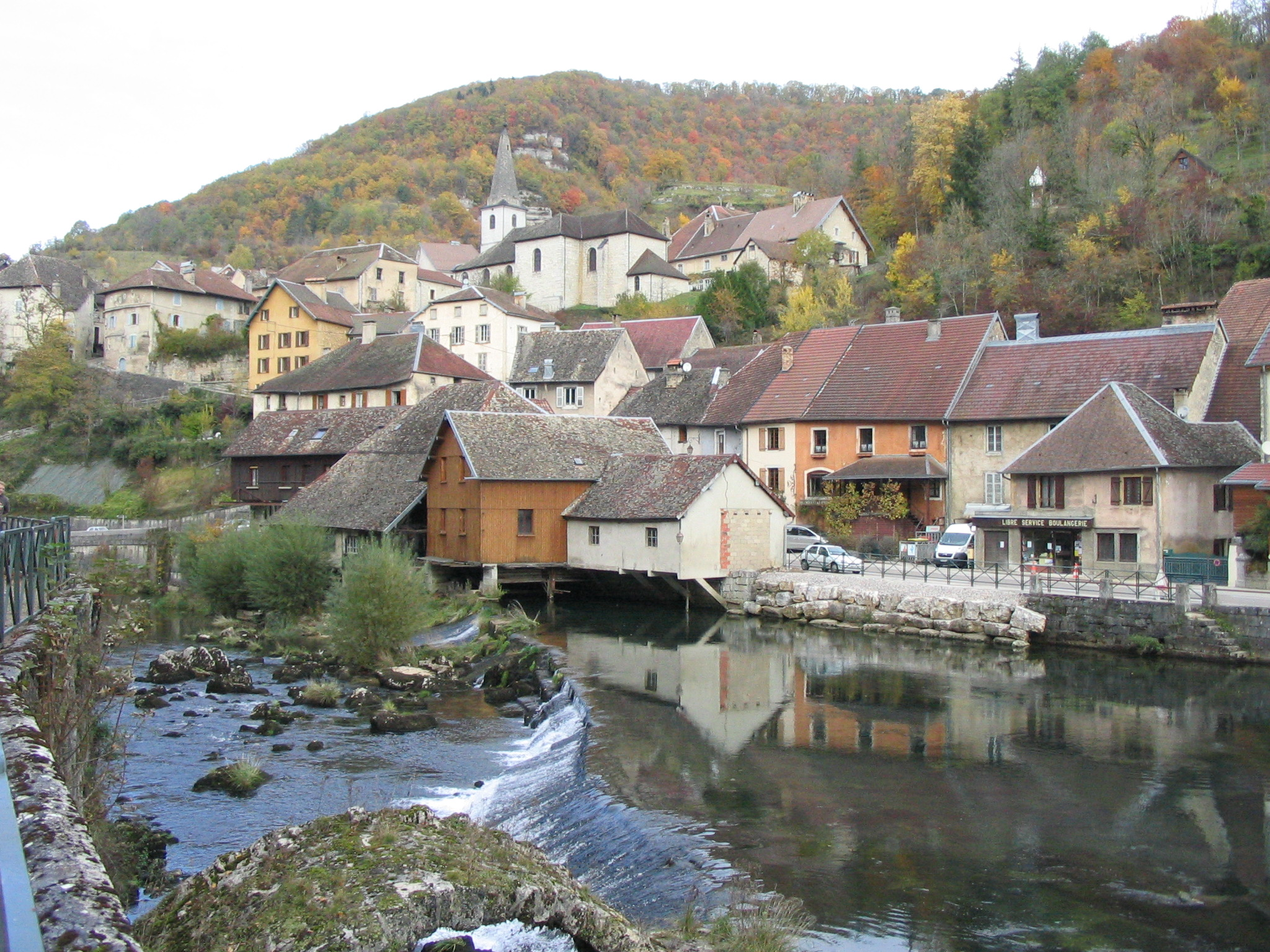 Lods (Doubs/France)